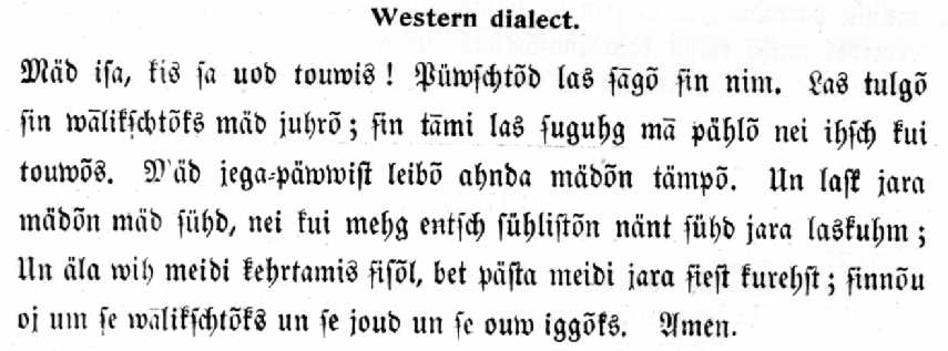 Pater noster prayer in western Livonian